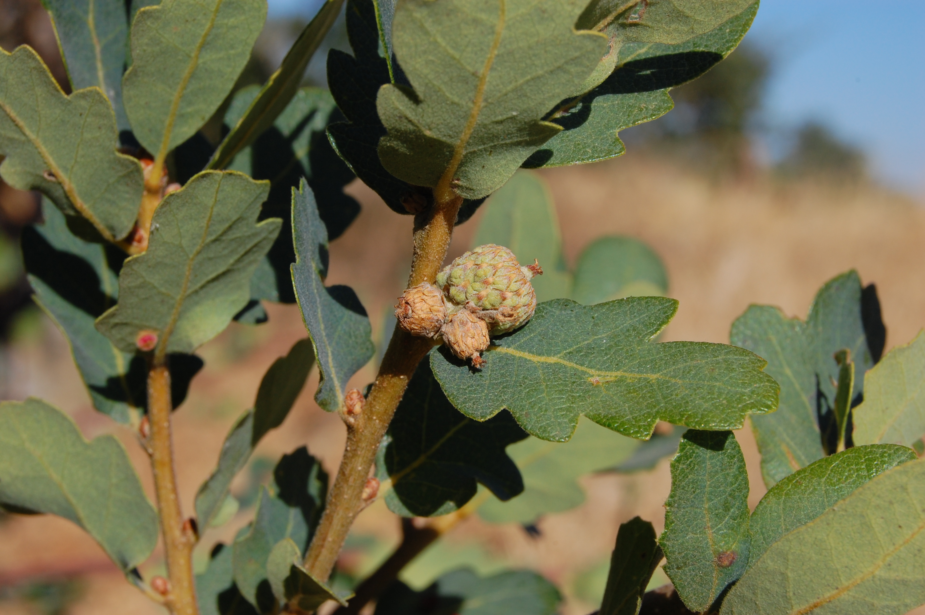 Blue Oak